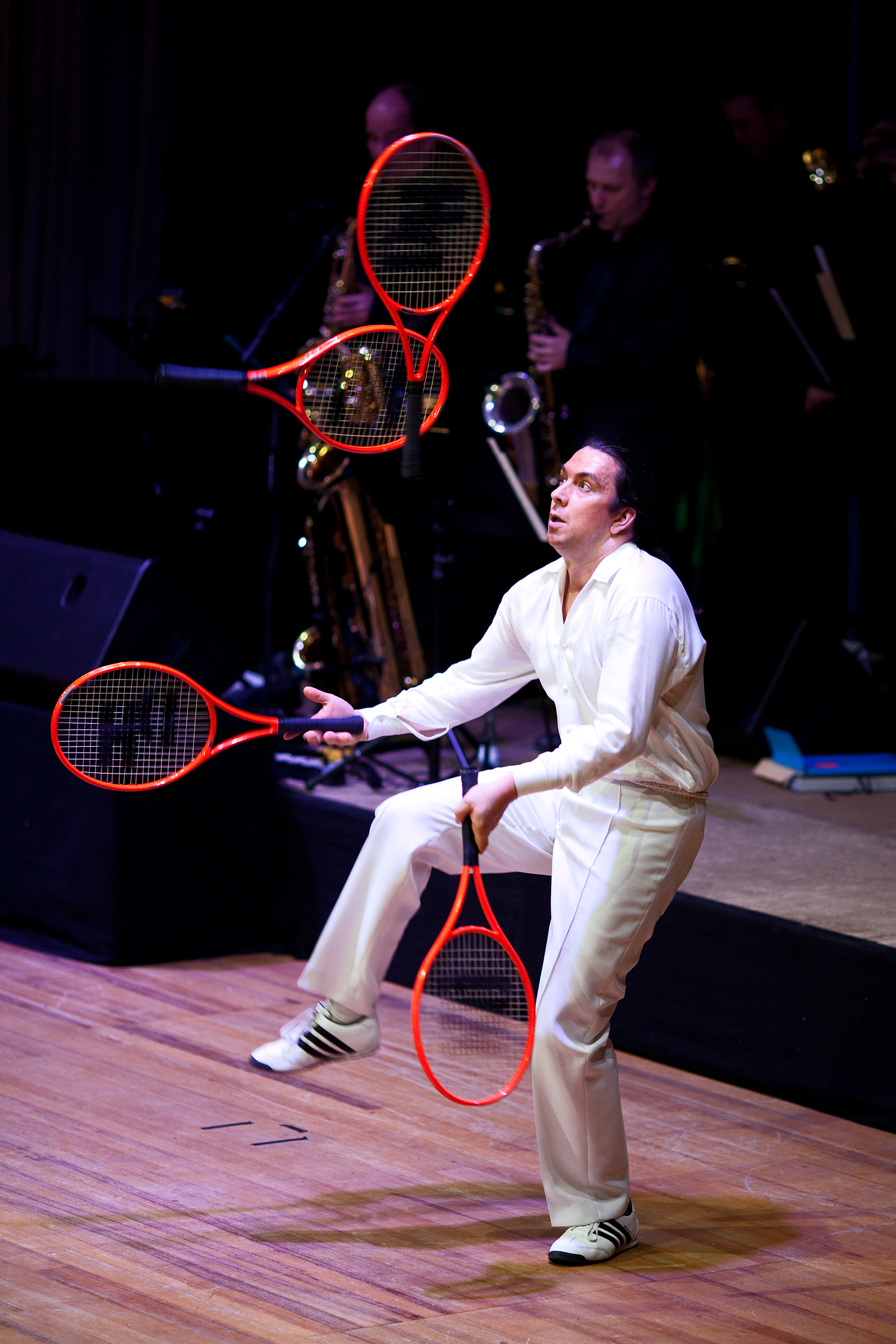 Juggler Daniel Hochsteiner at a performance 2010 in Hamburg.